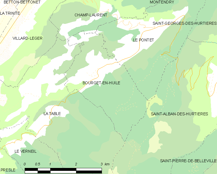 Map of French municipality